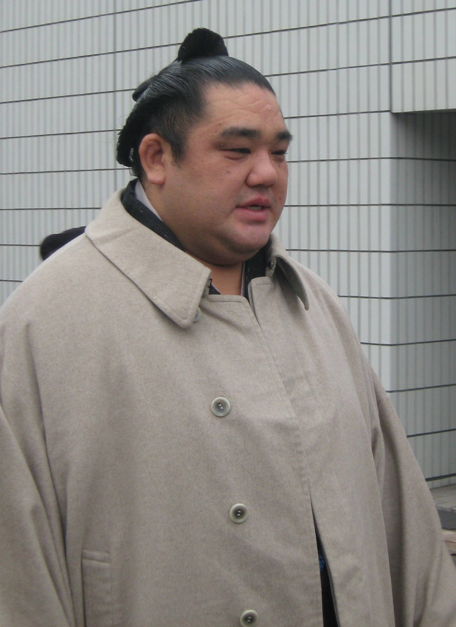 This is a photograph I took at a recent sumo tournament that I release the rights of. User:FourTildes 09:24, 31 May 2008 . . FourTildes . . 1,565×2,151 (1.03 MB)